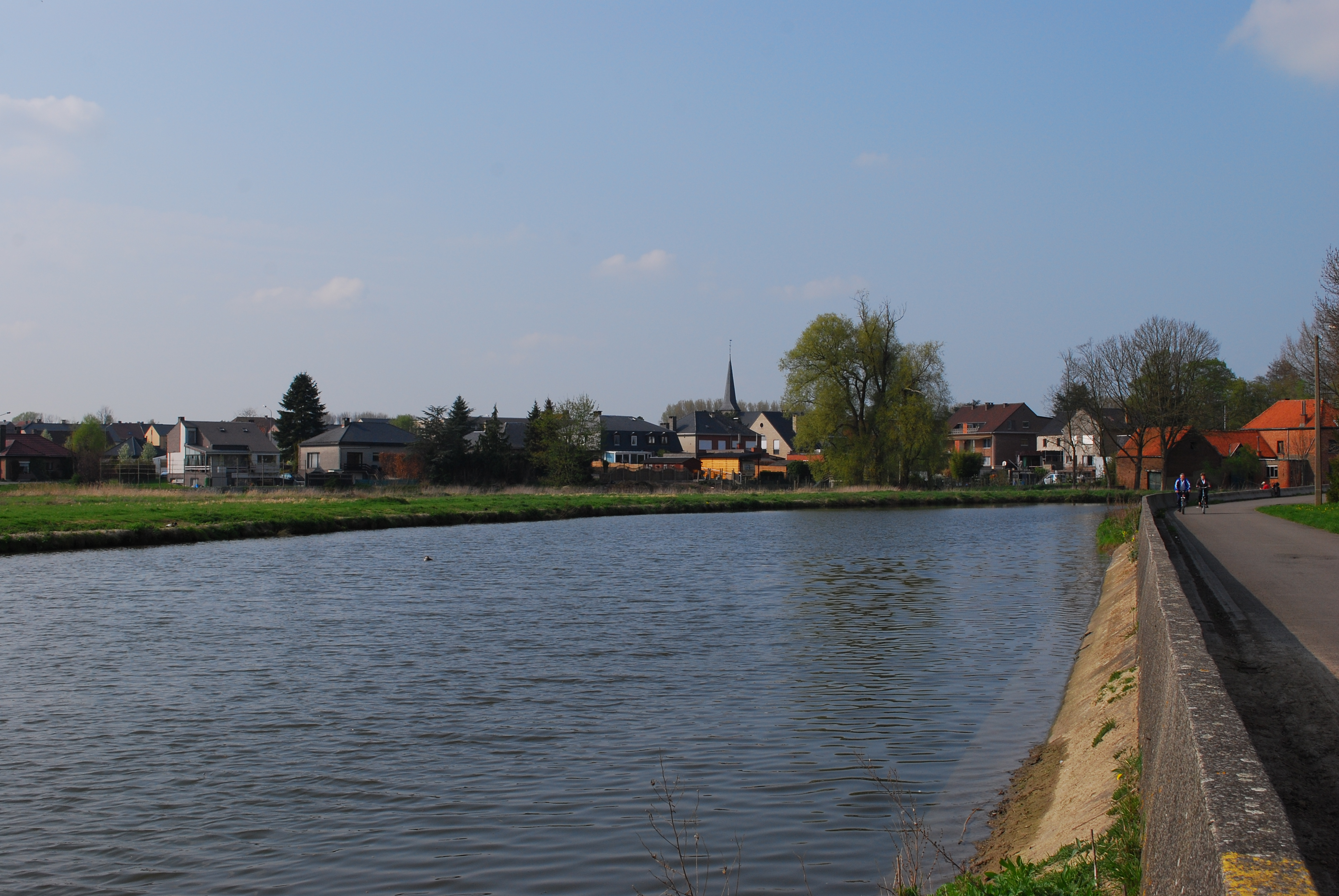 The river Dender at the village of Okegem, commune of Ninove, Belgium. Nikon D60 f=28mm f/10 at 1/400s ISO 200.